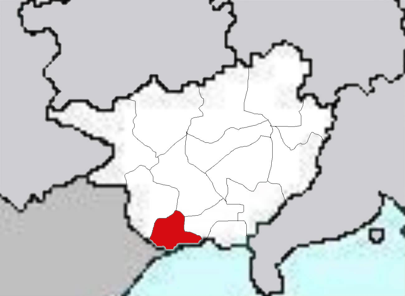 Maps of Guangxi Autonomous Region of China.